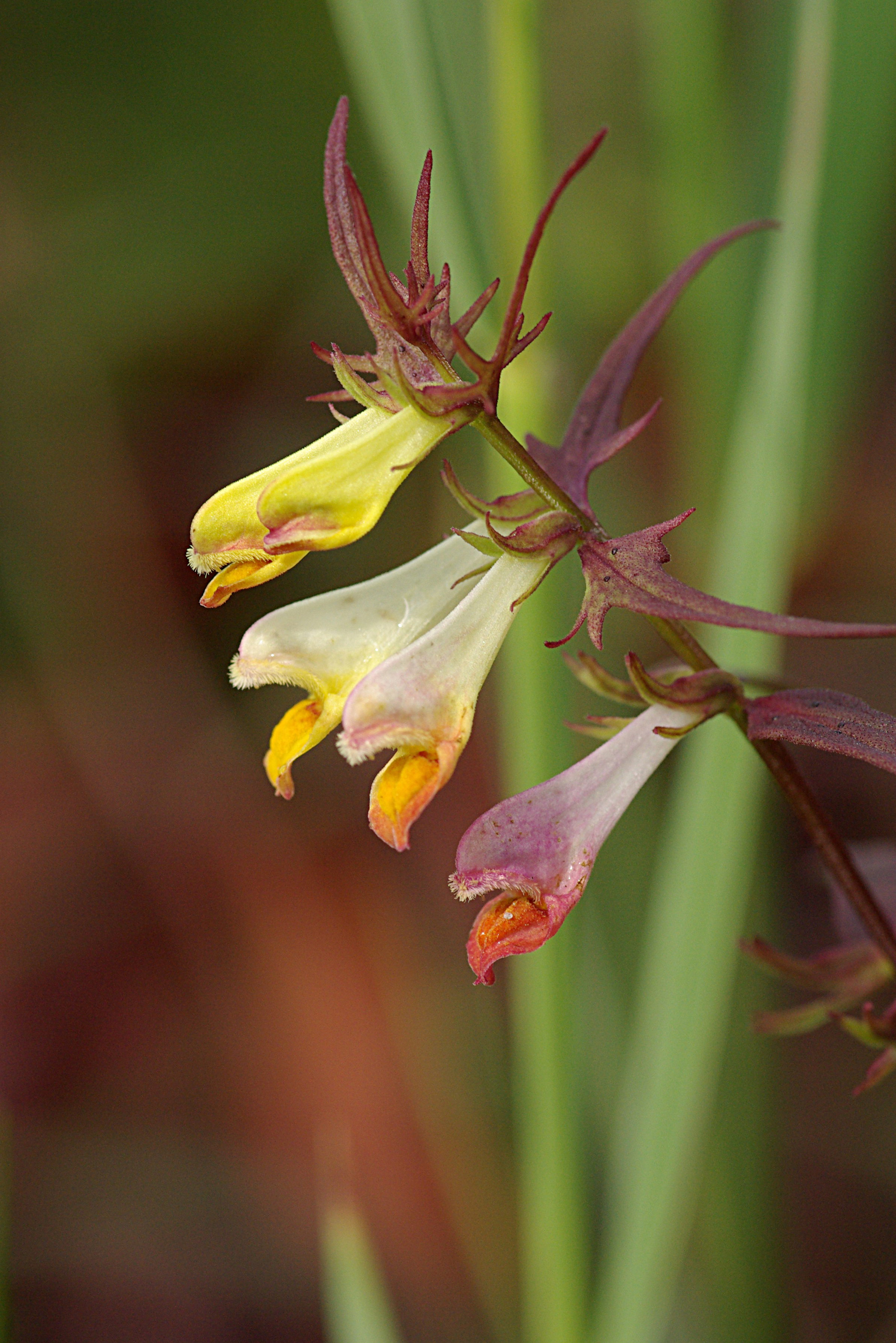 Melampyrum pratense taken in Gironde (Arès) 33 in Nature Reserve